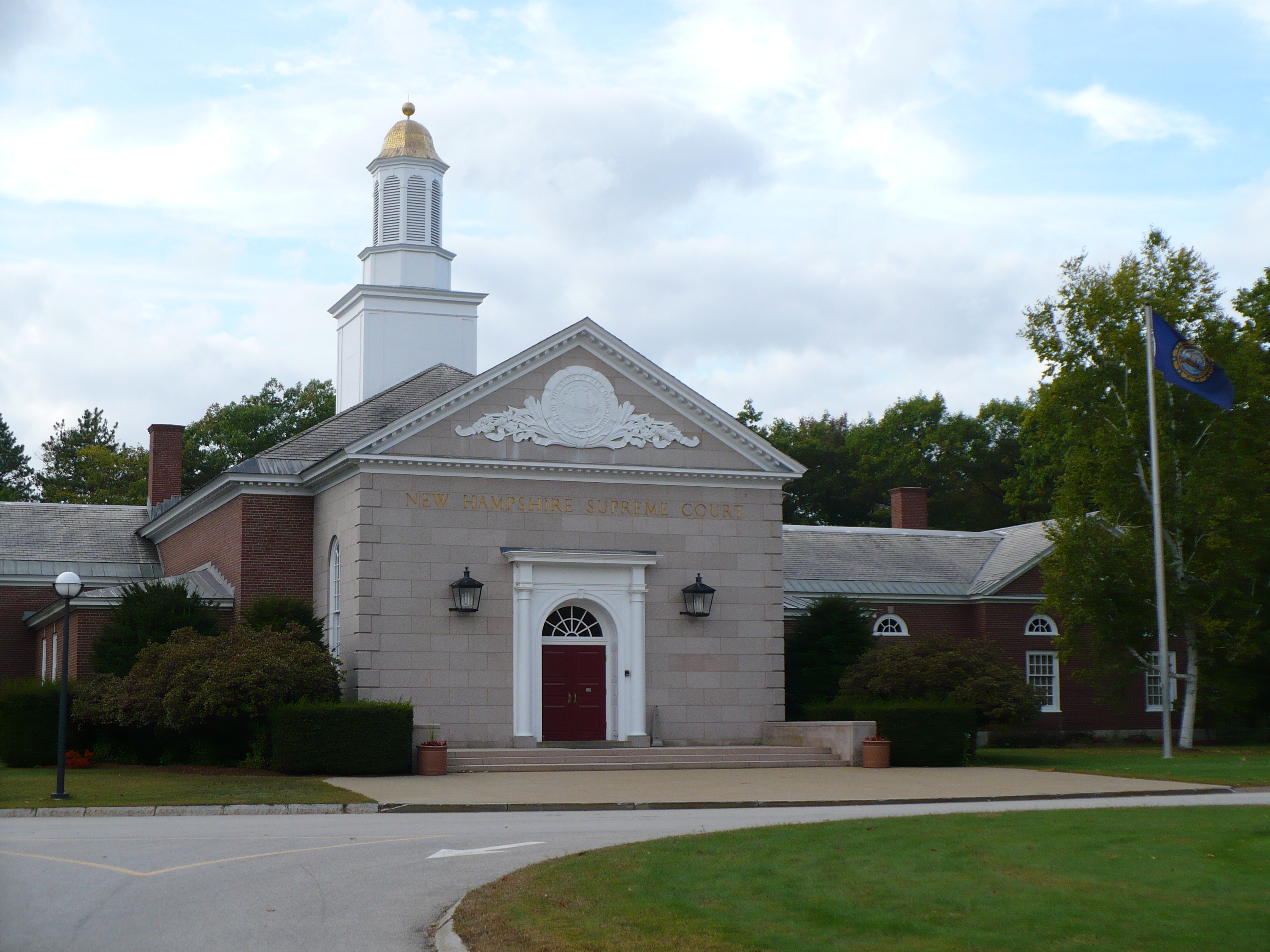 New Hampshire Supreme Court Building